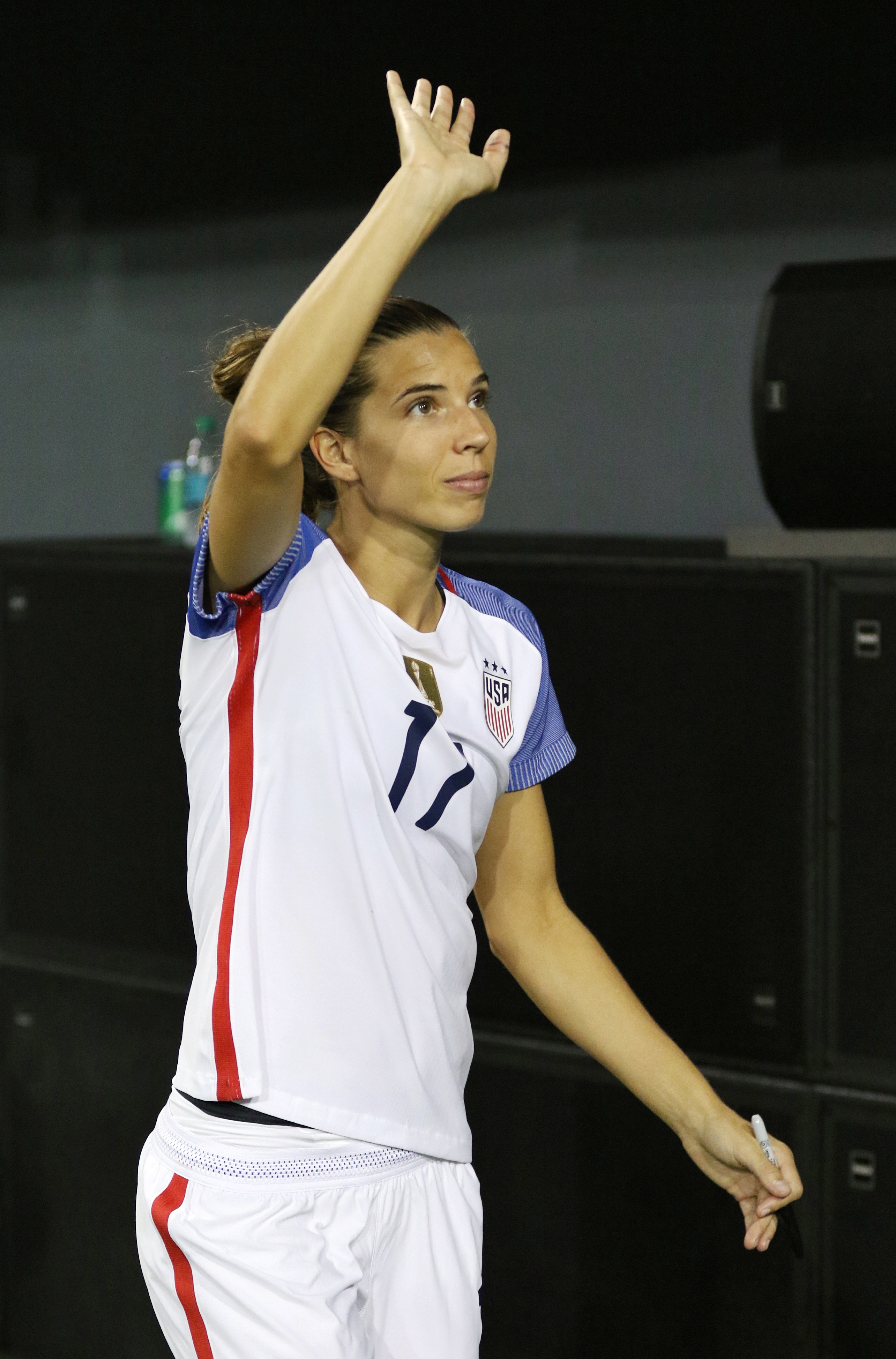 TobinHeath